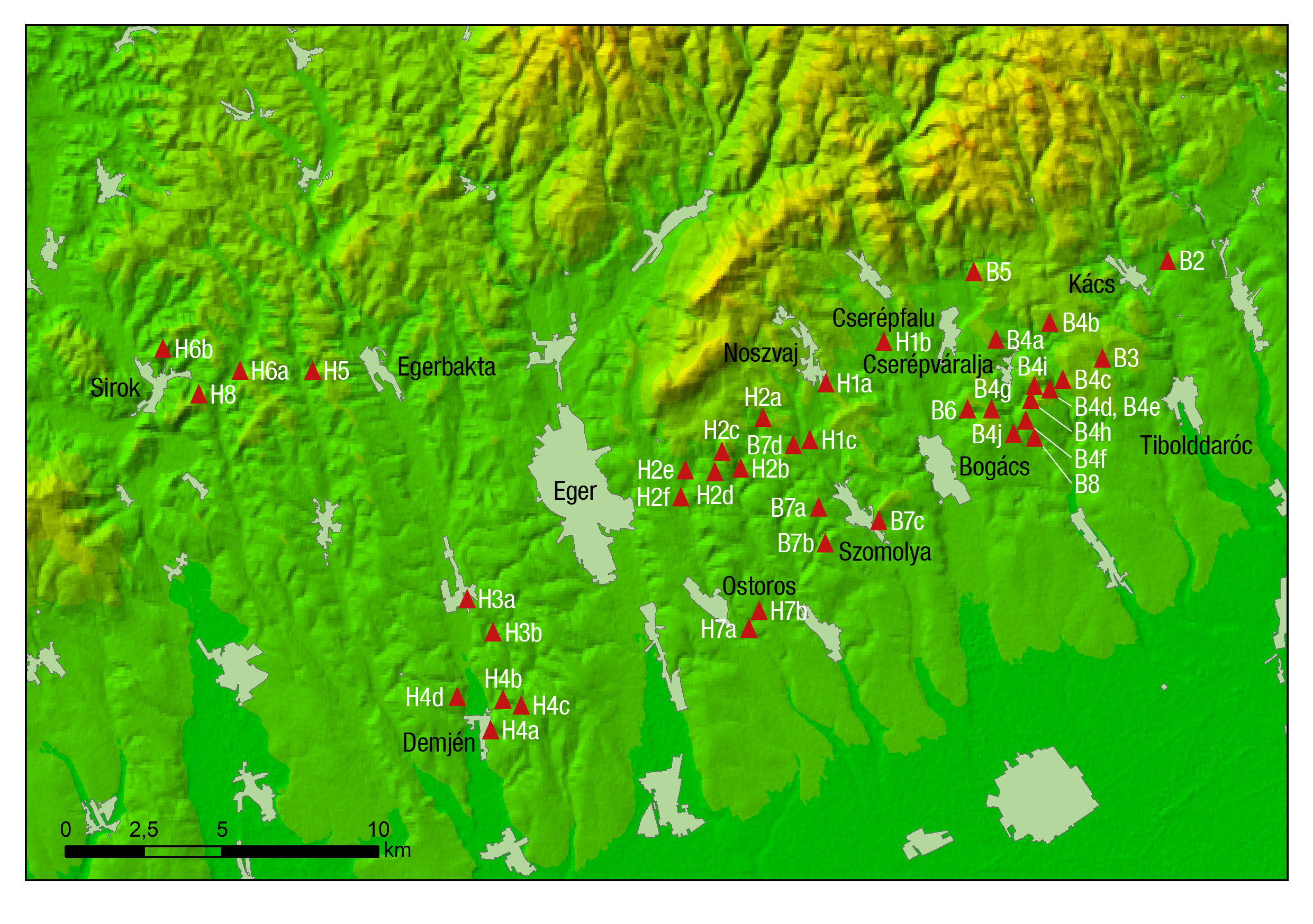 Beehive stone sites in Hungary, map